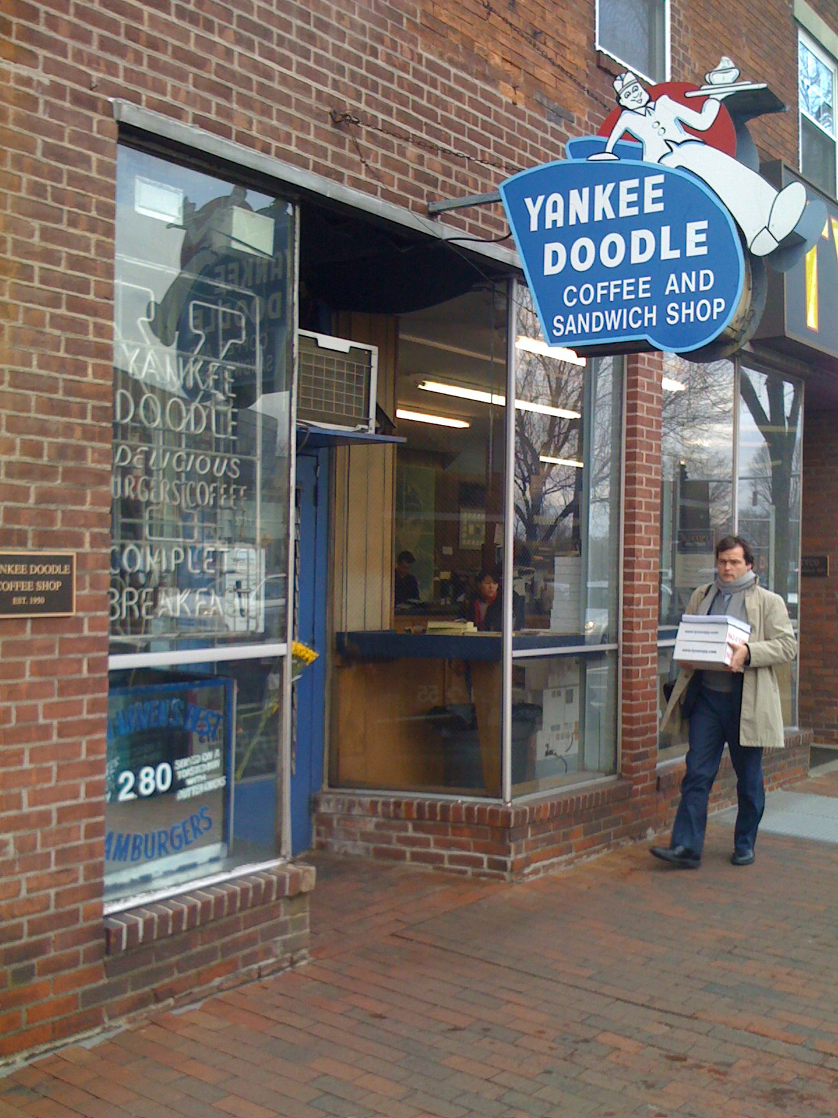 The Yankee Doodle Coffee and Sandwich Shop in New Haven, Connecticut